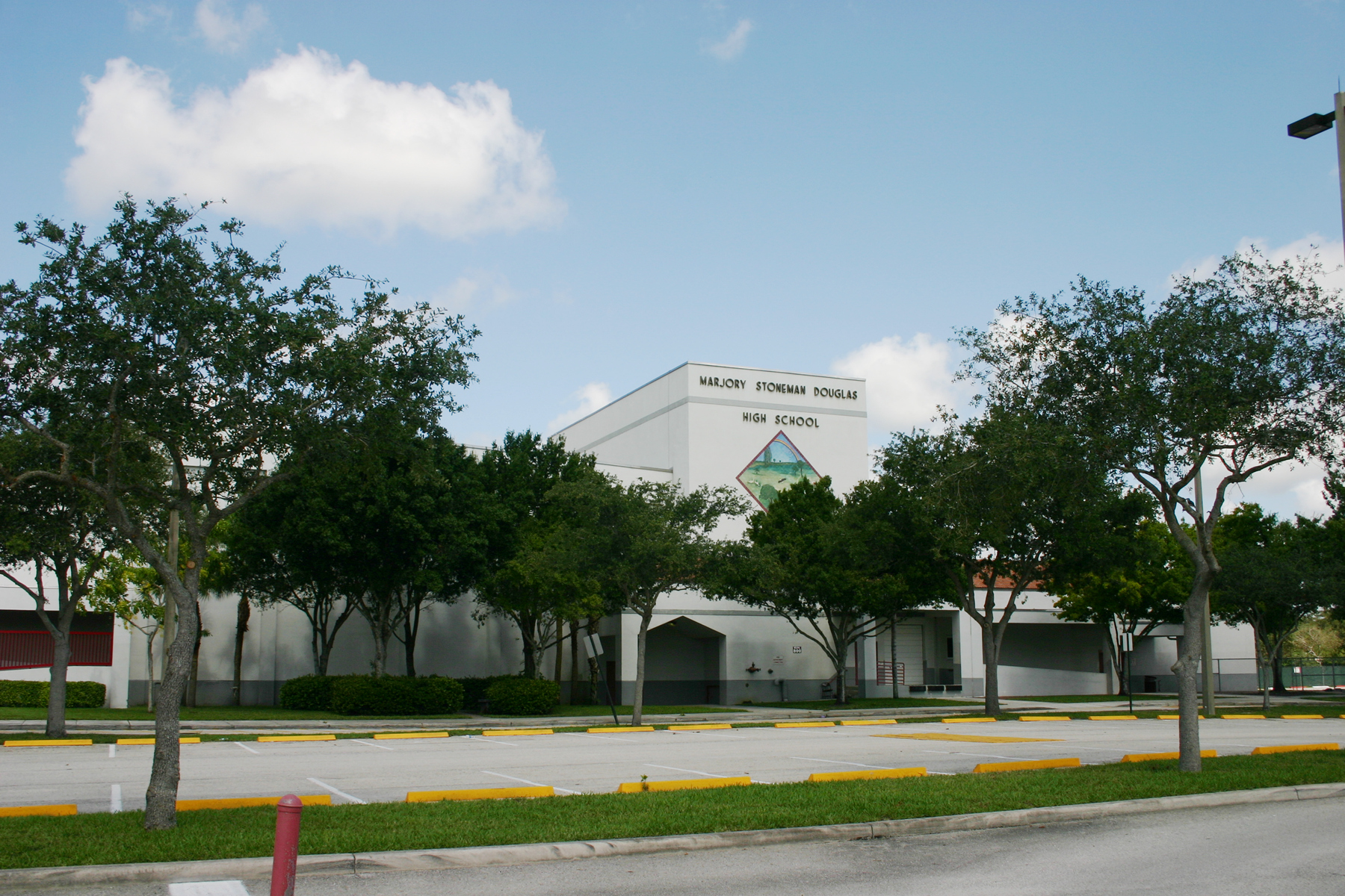 The front side of Marjory Stoneman Douglas High School, located in Parkland, Florida.